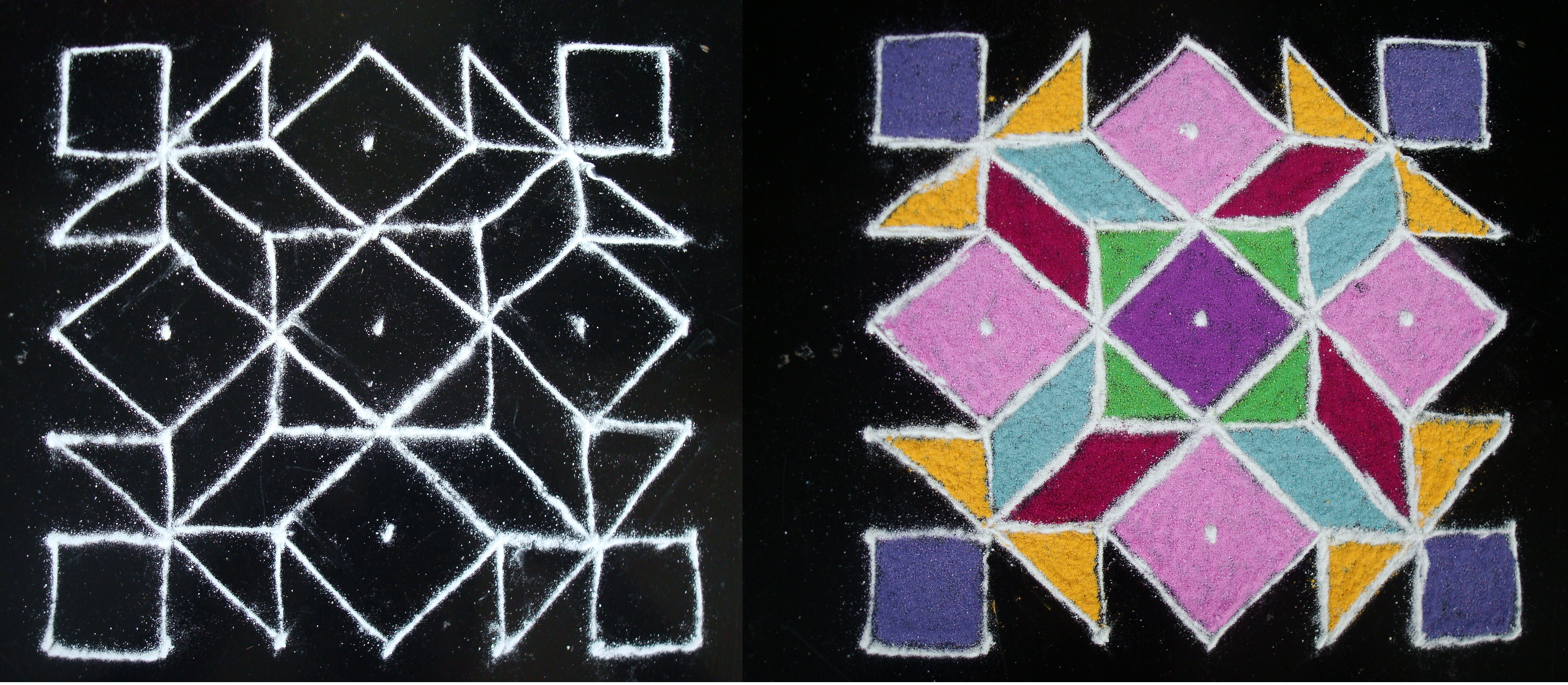 A 7 x 7 grid Rangoli before and after filling with colours.